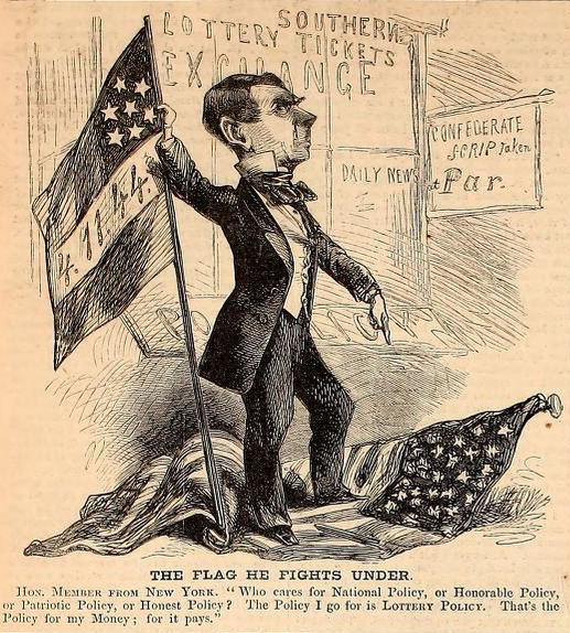 Cartoon in August 31, 1861 issue of Harper's Weekly, showing Benjamin Wood, editor of the New York Daily News, who was pro-Confederate and refused to fly the American flag above his paper's headquarters.